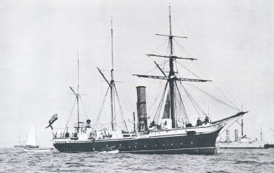 British sloop Nymphe.